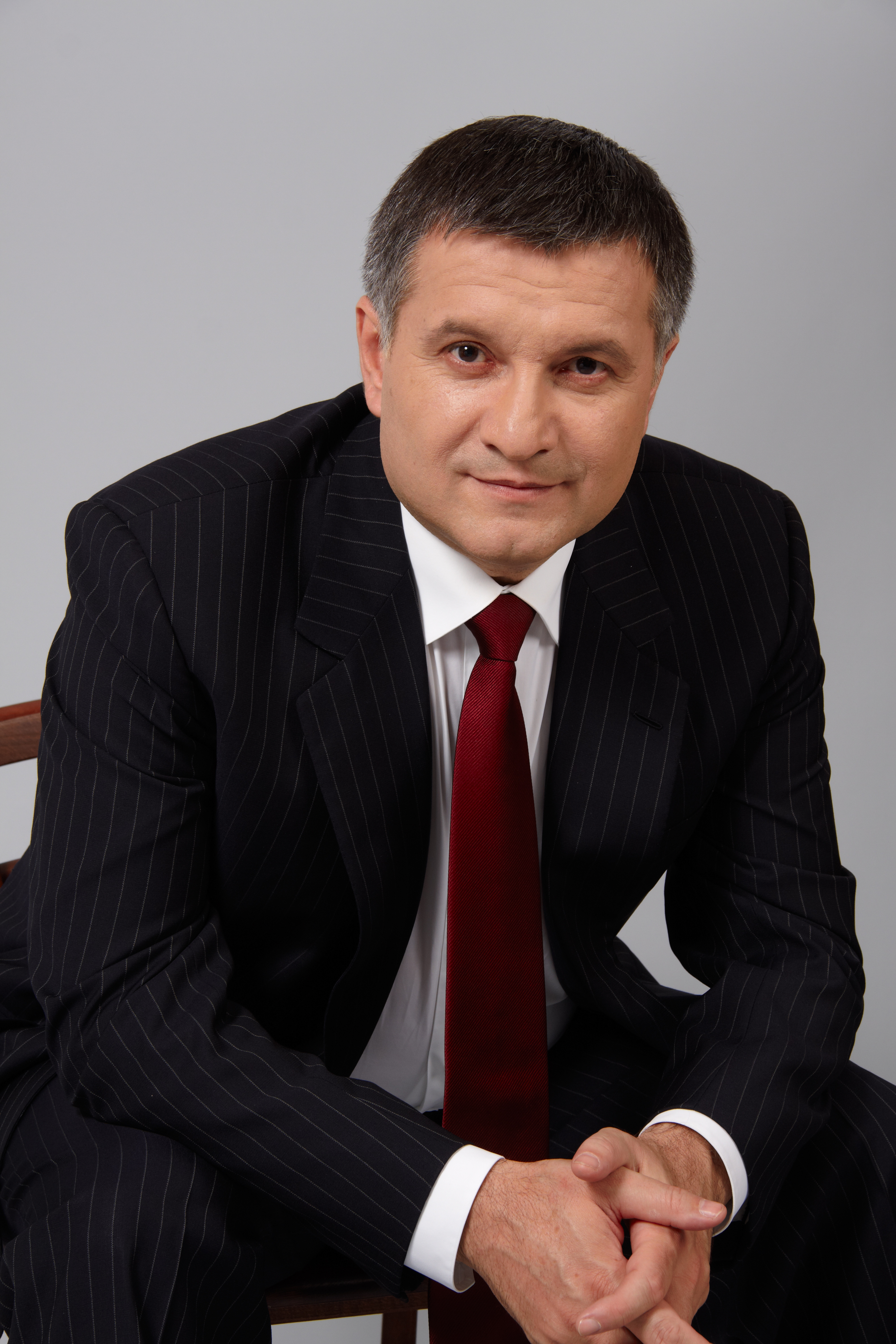 Avakov Arsen Borysovych, Ukrainian politician.